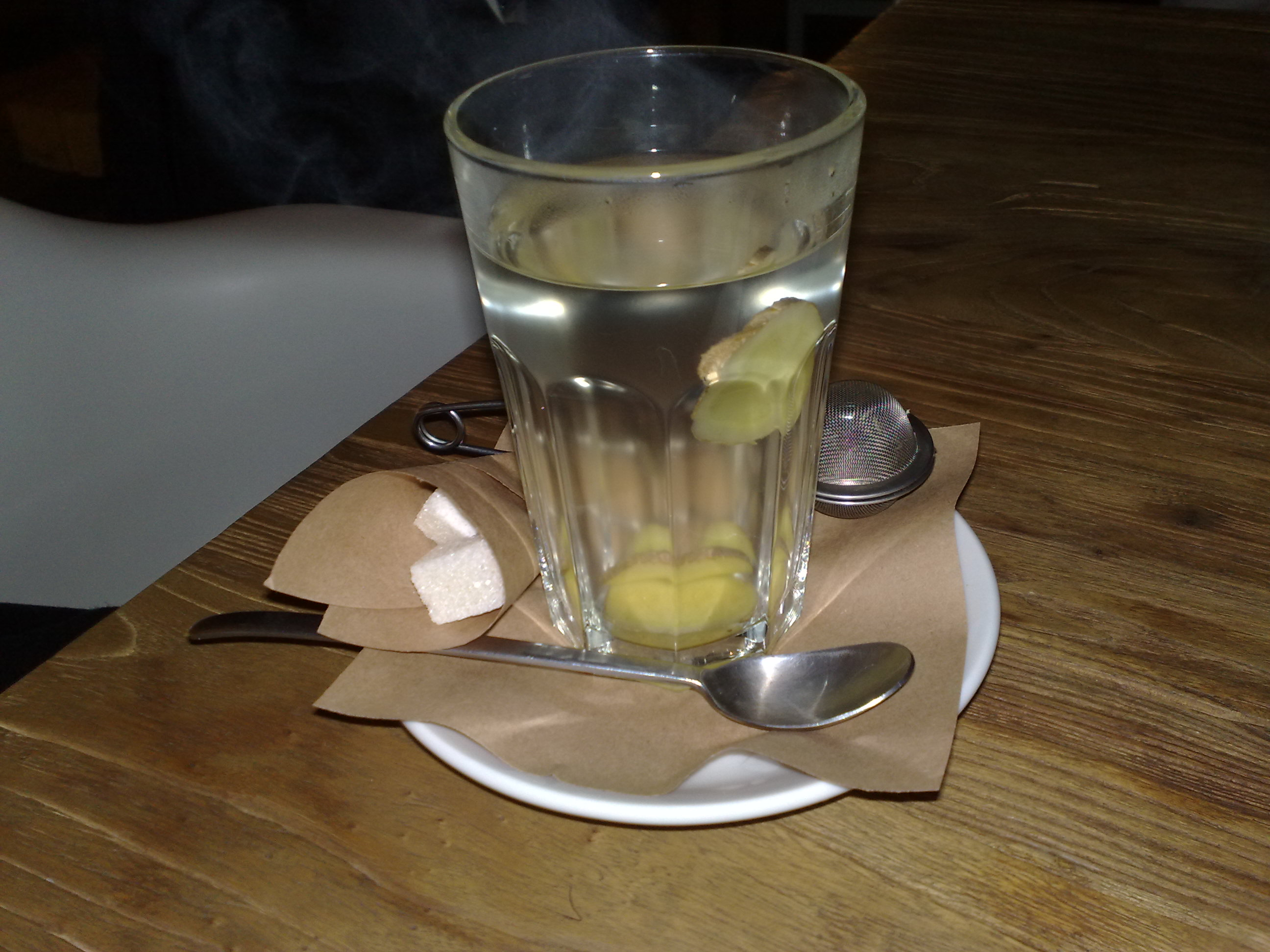 Ginger tea